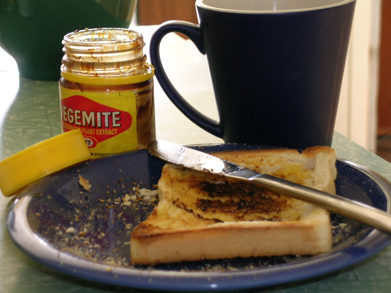 Vegemite on toast